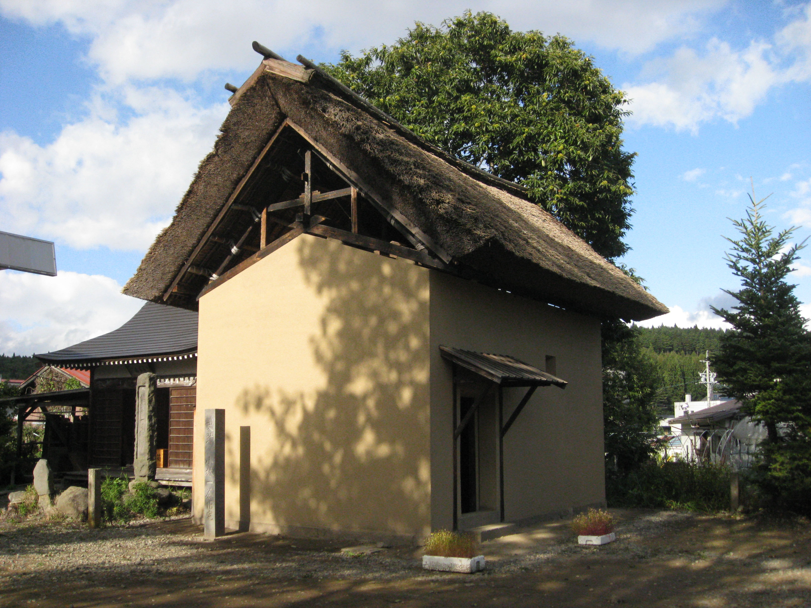 Kobayashi Issa - Storehouse where he lived (Shinano, Nagano, Japan)